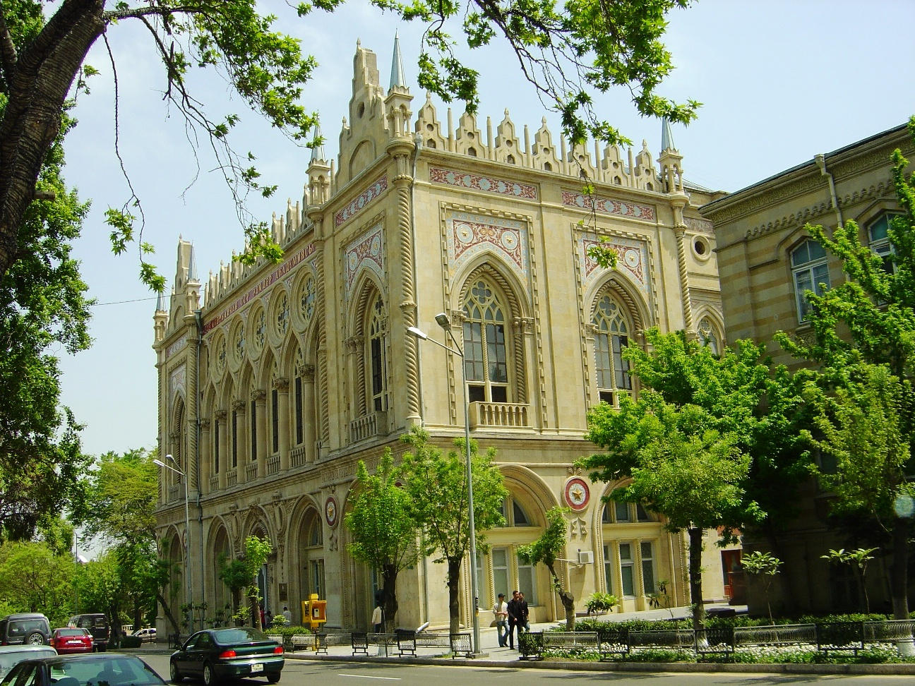 National Academy of Sciences of Azerbaijan (Azərbaycan Milli Elmlər Akademiyası), Baku.